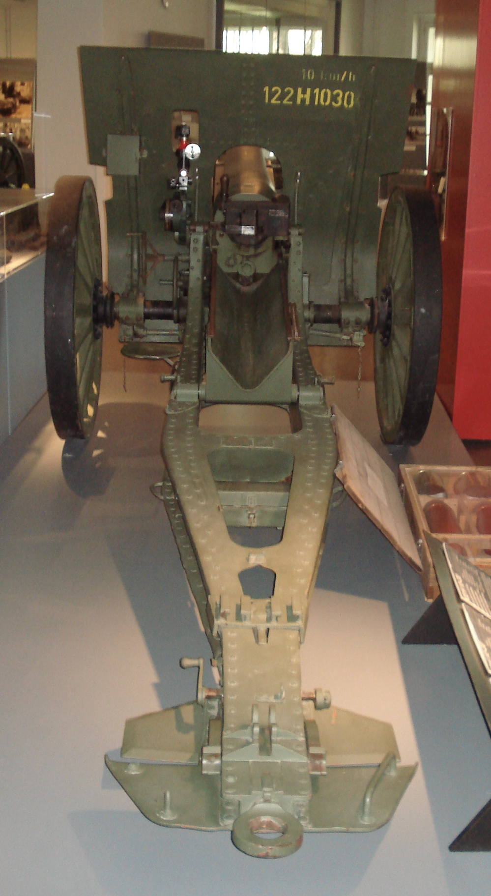 Soviet 122 mm howitzer Model 1910-1930, displayed in Hämeenlinna Artillery Museum. This particular gun was manufactured in Perm in 1926. The Model 1910 howitzer was based on a French Schneider design. They were produced in Imperial Russia and then in the Soviet Union. As was typical for most World War I artillery pieces, the gun was modernised from 1930 onwards, the resulting guns called Model 10-30. One part of the modernization consisted of the addition of a muzzle brake, which is missing on this particular gun. Photo taken on June 18, 2006. Source: Photo by me, User:Balcer.